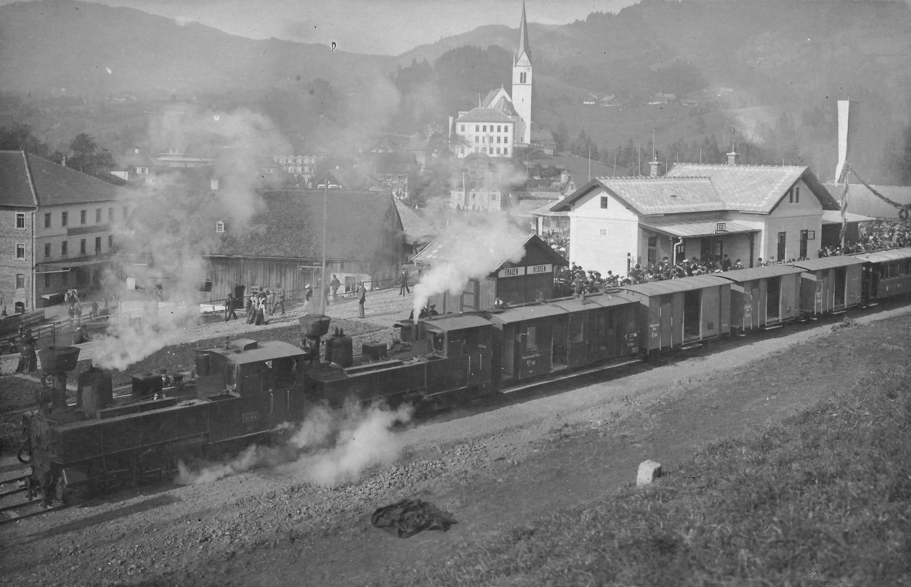 Inaugural train of the Bregenzerwaldbahn in Vorarlberg in Egg station, hauled by two U-class engines.